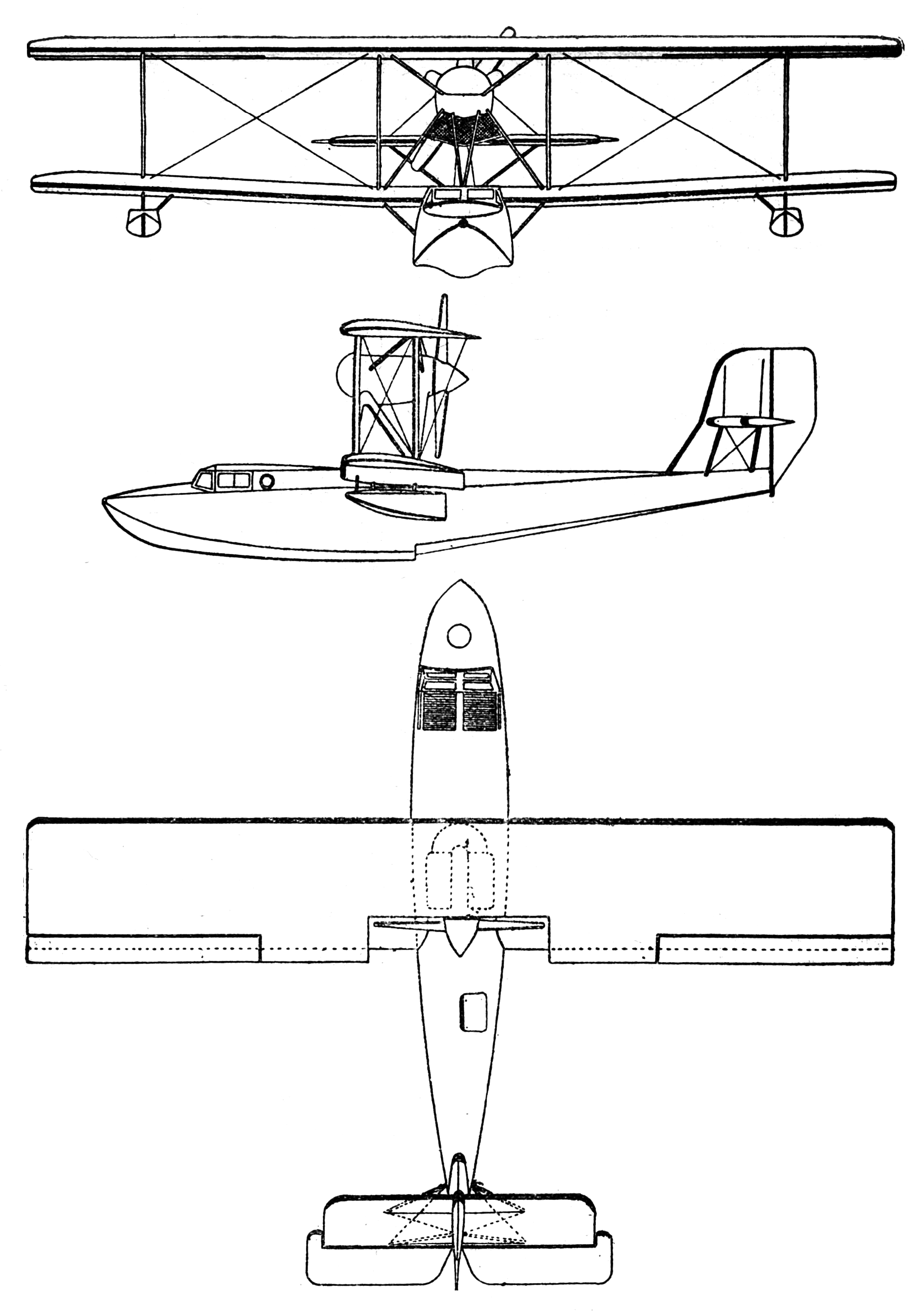 CAMS 37 GR 3-view drawing from Les Ailes October 28, 1926